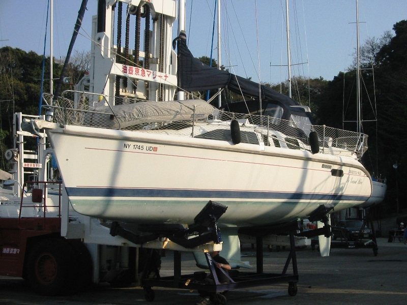 Boat being forklifted in Moroiso, Japan. Personal photograph.